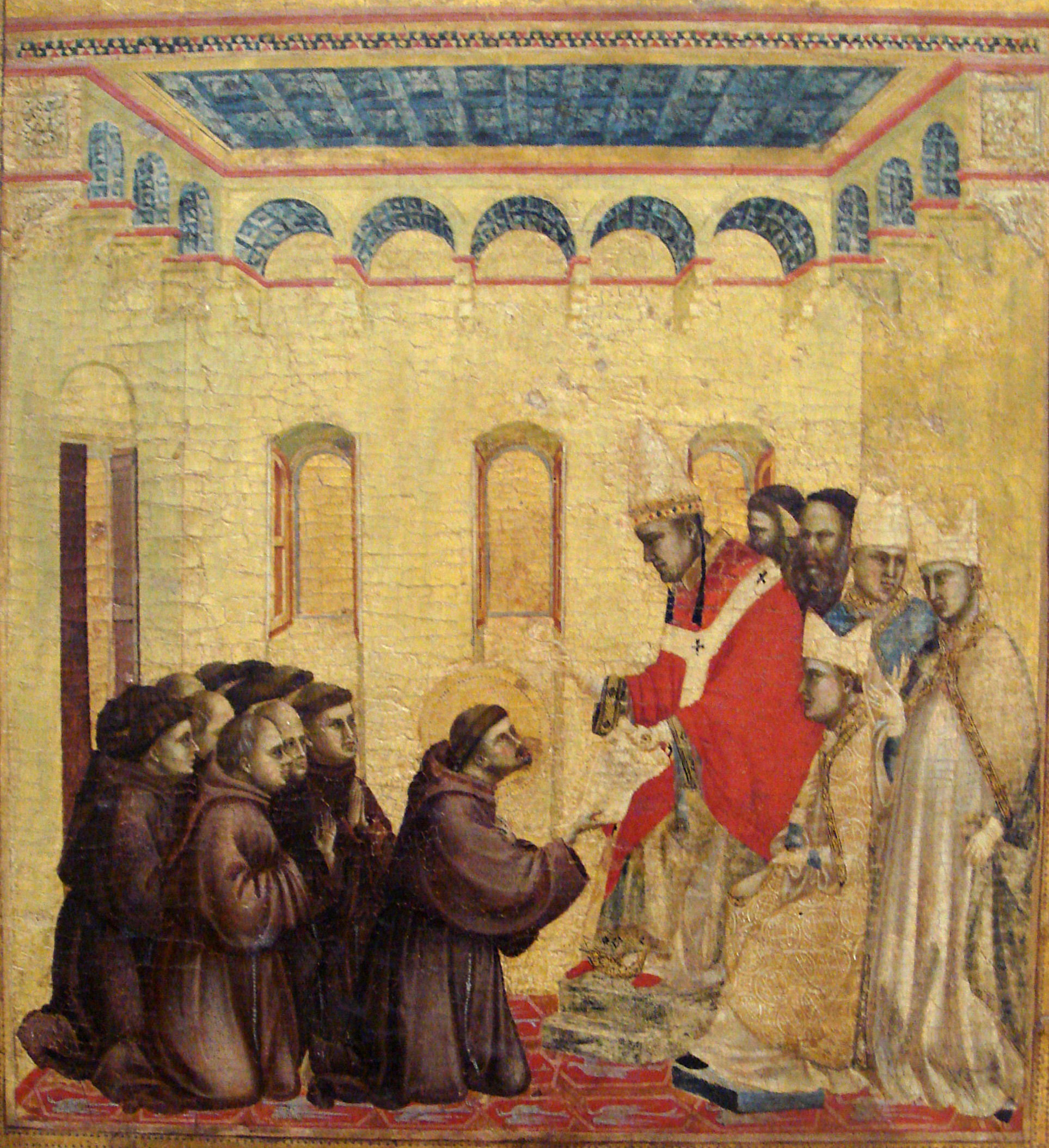 The Pope approuving the statutes of the order of the Franciscans. By Giotti, 1295-1300. Personal photograph in Le Louvre